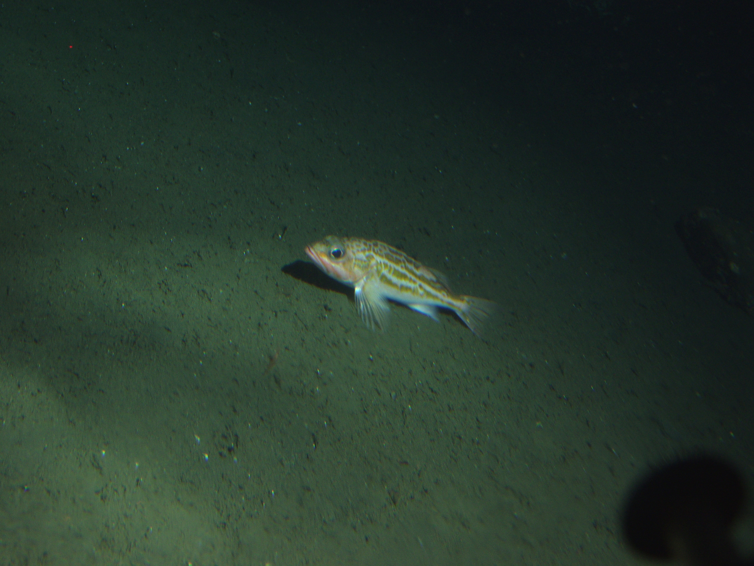 Greenstriped rockfish (Sebastes elongatus) in soft bottom habitat at 175 meters depth. Latitude 38 03 N., Longitude 123 31 W. California, Cordell Bank National Marine Sanctuary.